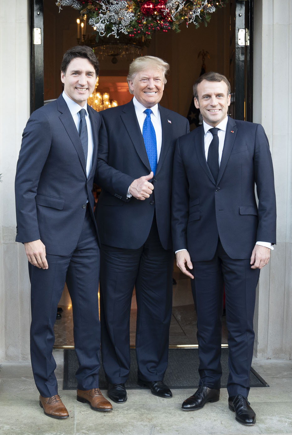 President Donald J. Trump meets with President Emmanuel Macron of France and Canadian Prime Minister Justin Trudeau in between separate meetings with each leader Tuesday, Dec. 3, 2019, at Winfield House in London.